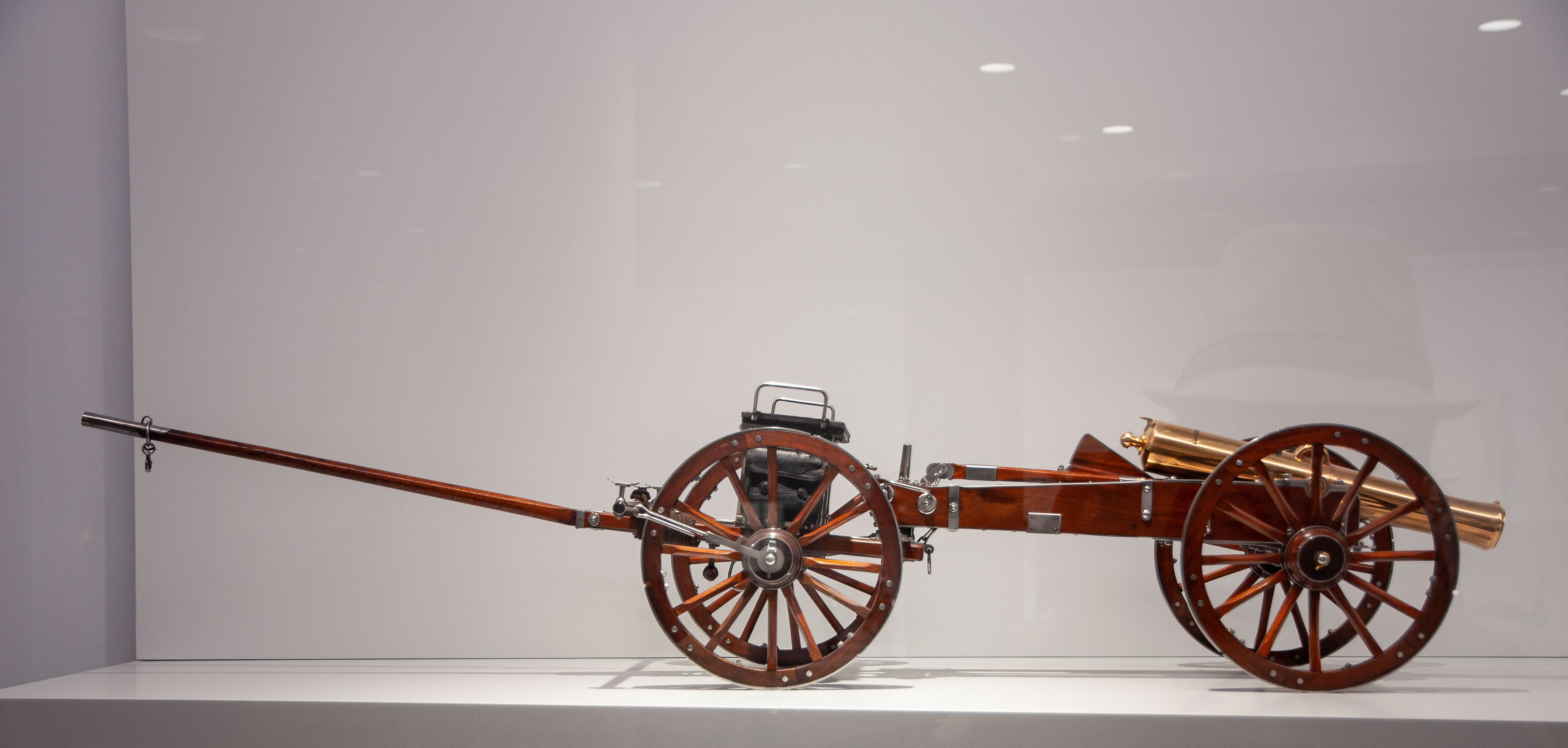 1854 - Saint Petersburg - Saint Petersburg ( Russia ) Bronze, wood and iron.